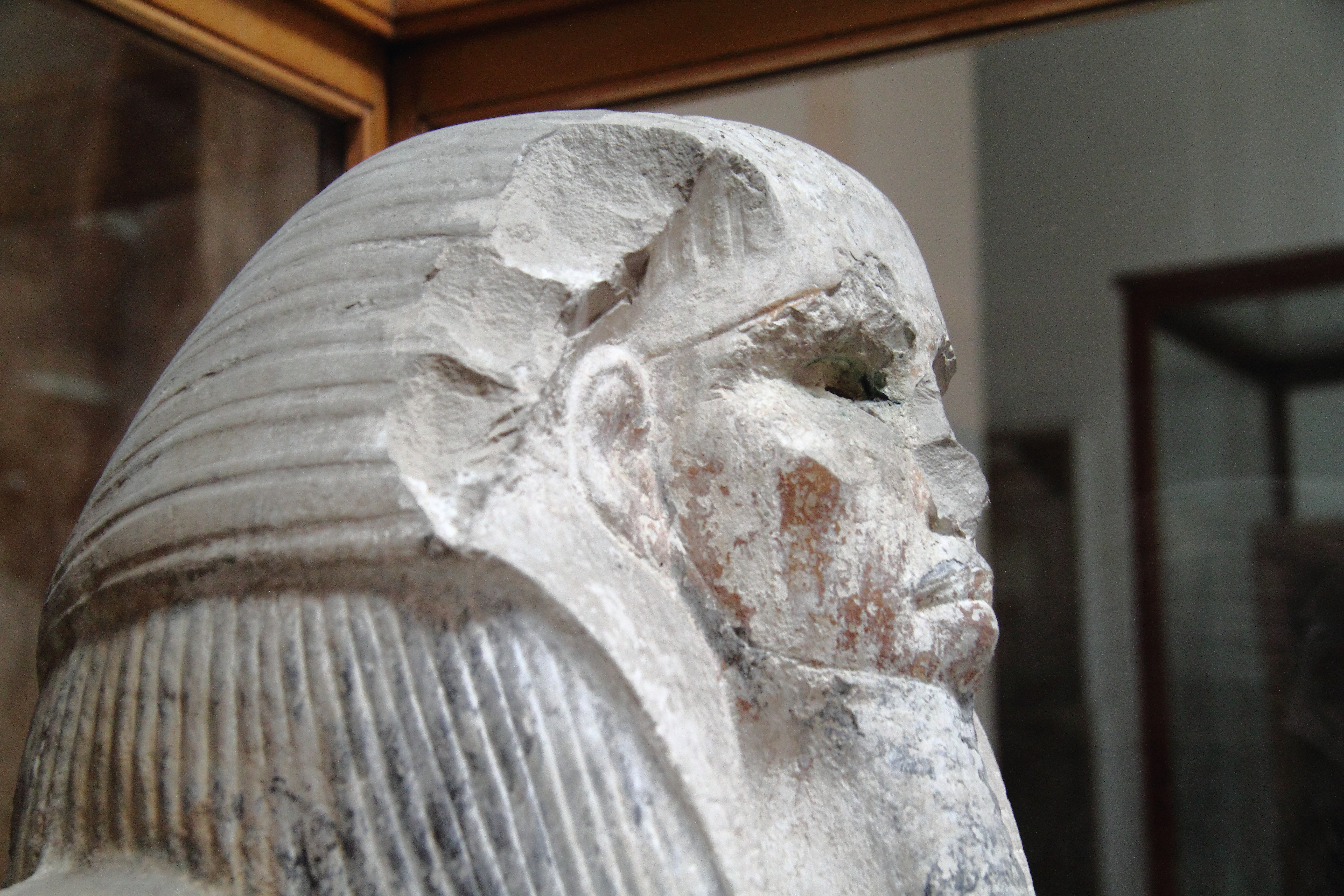 Egyptian Museum: statue of king Djoser